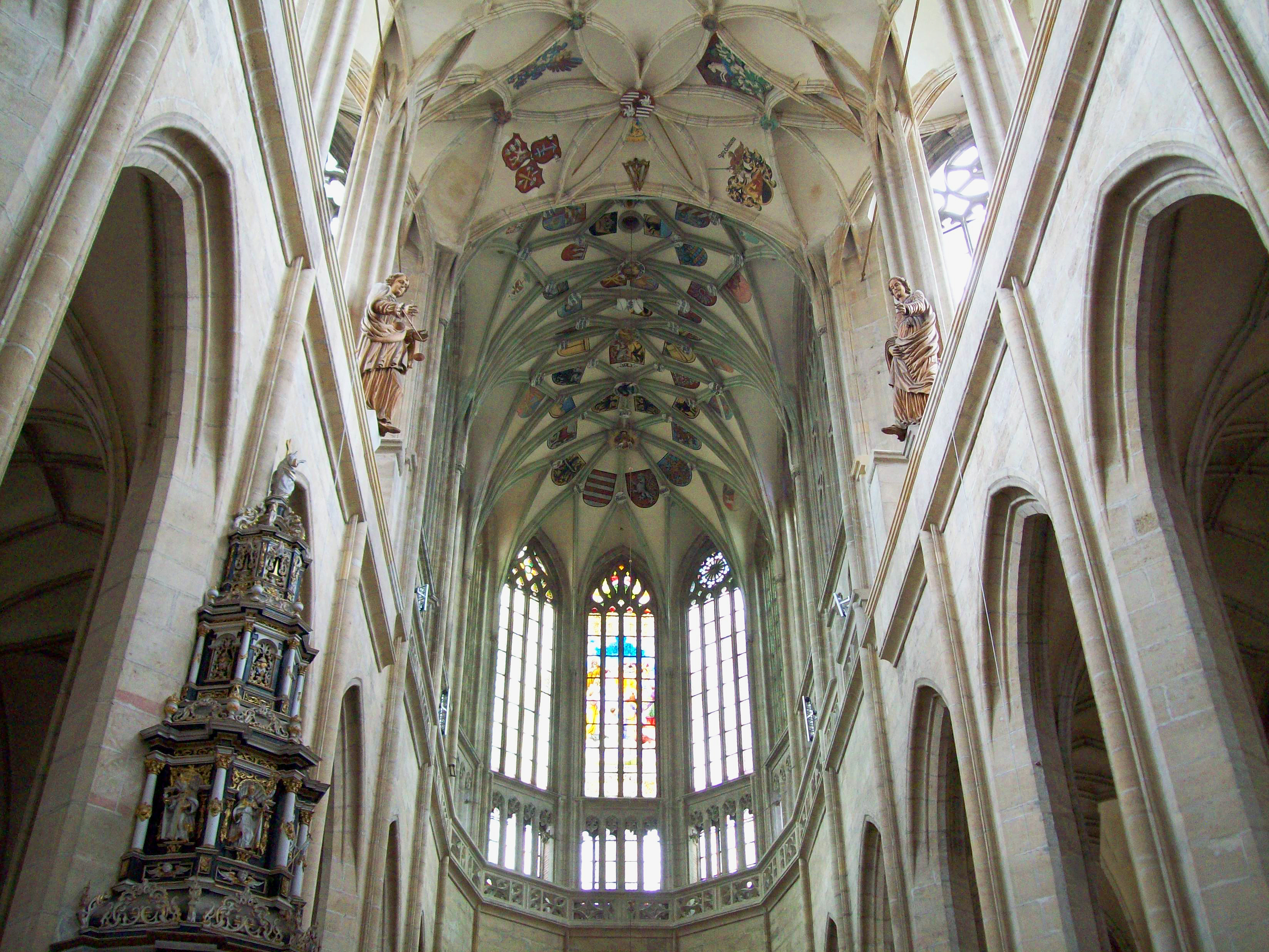 Kutná Hora, St. Barbara Church